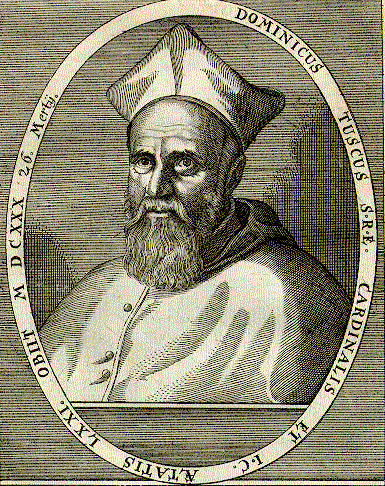 Italian jusrist and Catholic Cardinal Domenico Toschi (spelled Tuschi in the image).